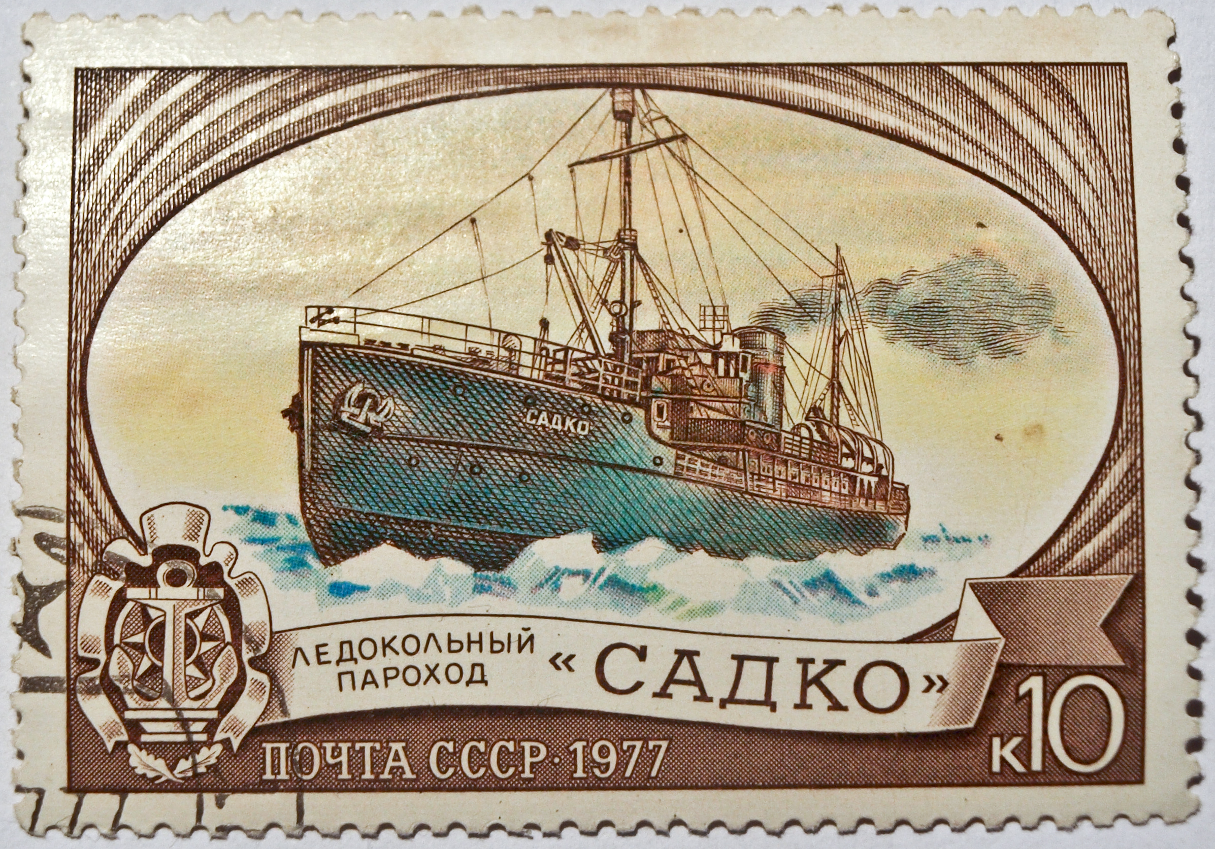 Brand icebreaker Sadko 1977, USSR